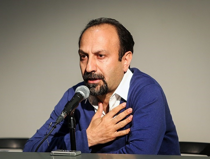 Asghar Farhadi in Fajr International Film Festival